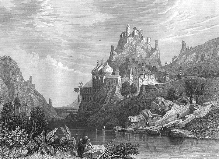 An engraving (cropped to remove borders & captions) of the ruins at ettaia/ettawa india, in the first half of the 19th century, circa 1830's-1850s. The illustration was re-printed a number of times during this era, unknown which particular printing this copy of the image is taken from.